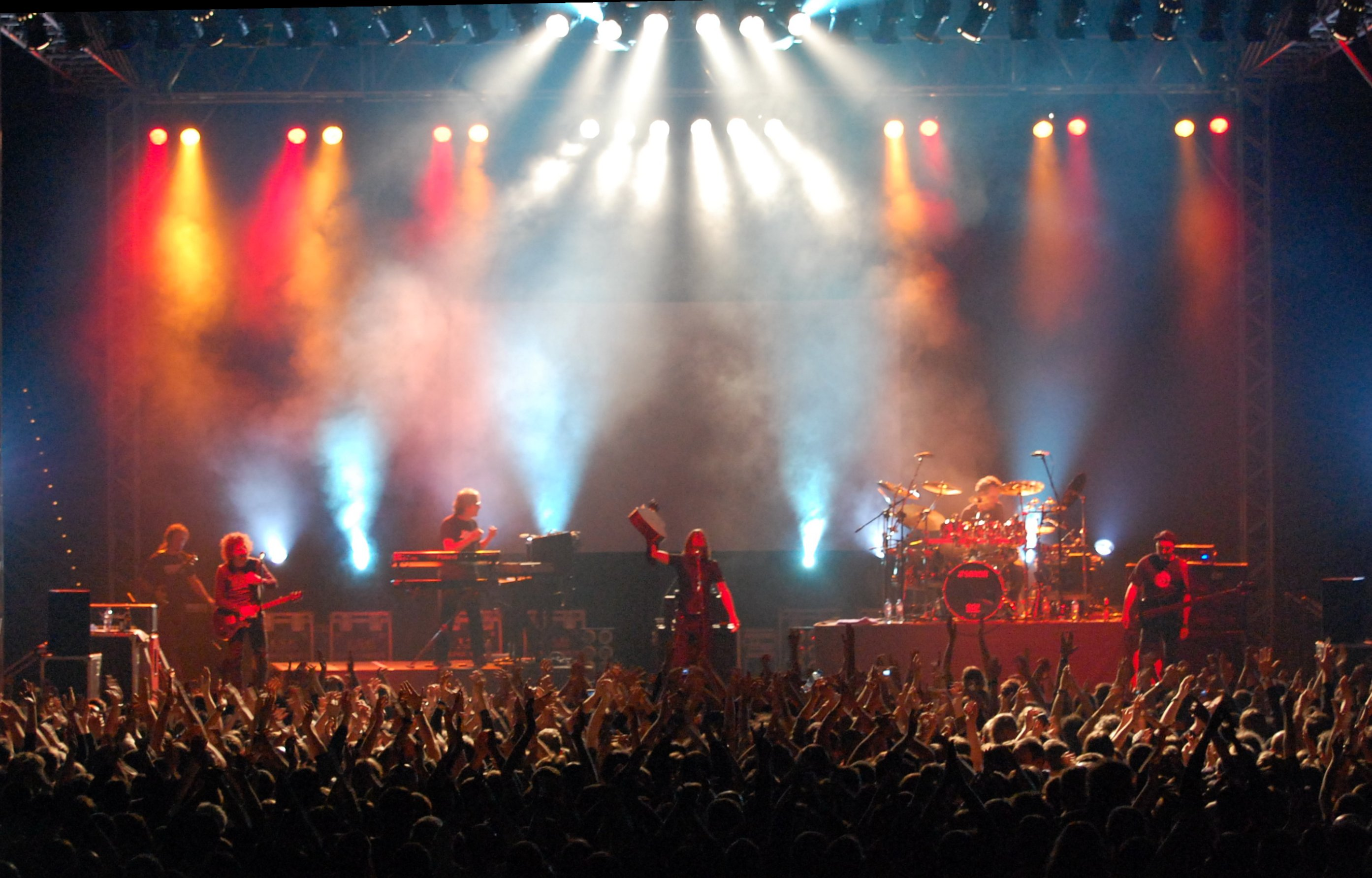 Porcupine Tree live at Arena, Poznan, Poland (November 28, 2007)